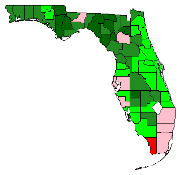 A map of the county results of Florida Amendment 2 in 2008.